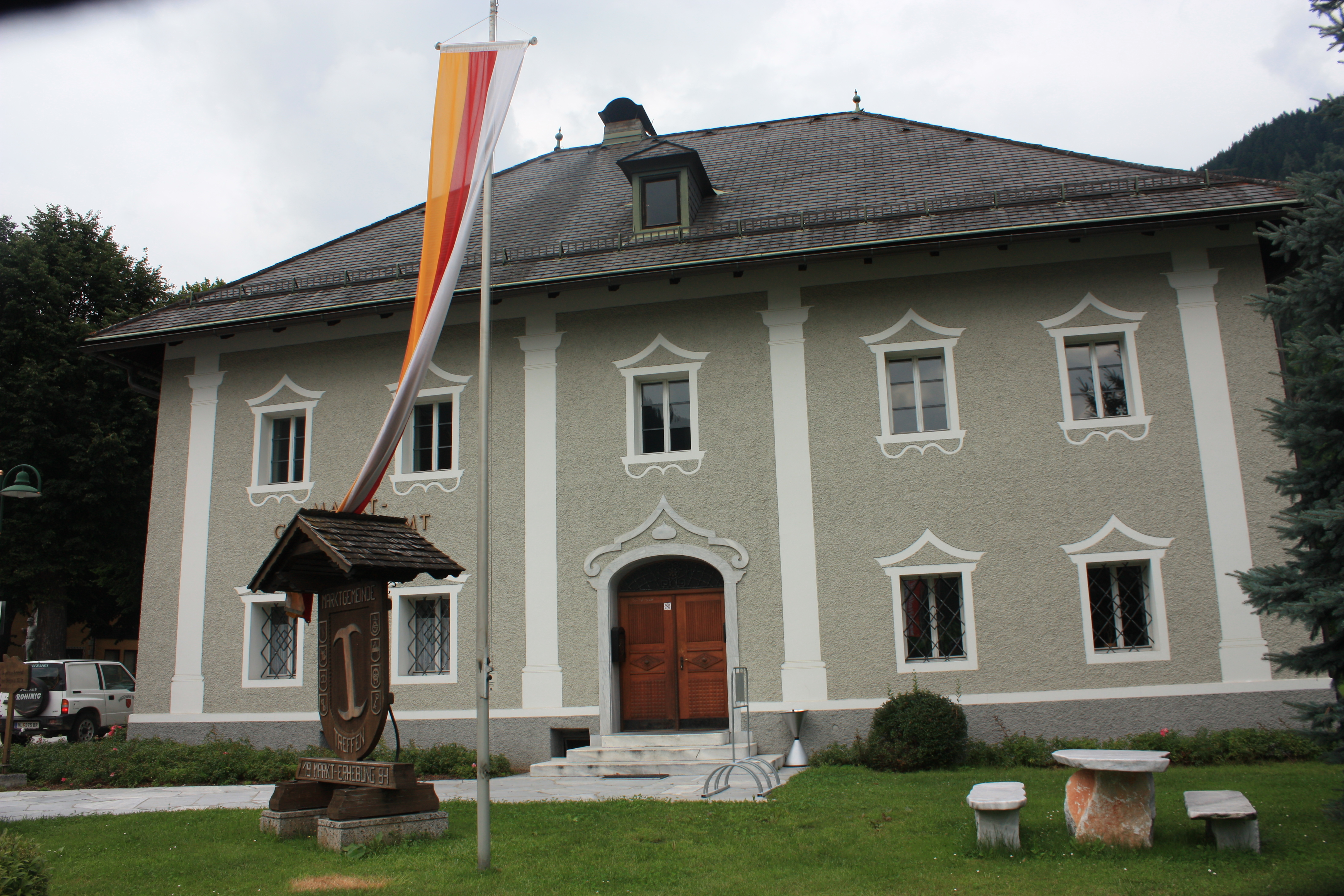 Municipal hall Locality:Treffen Community:Treffen